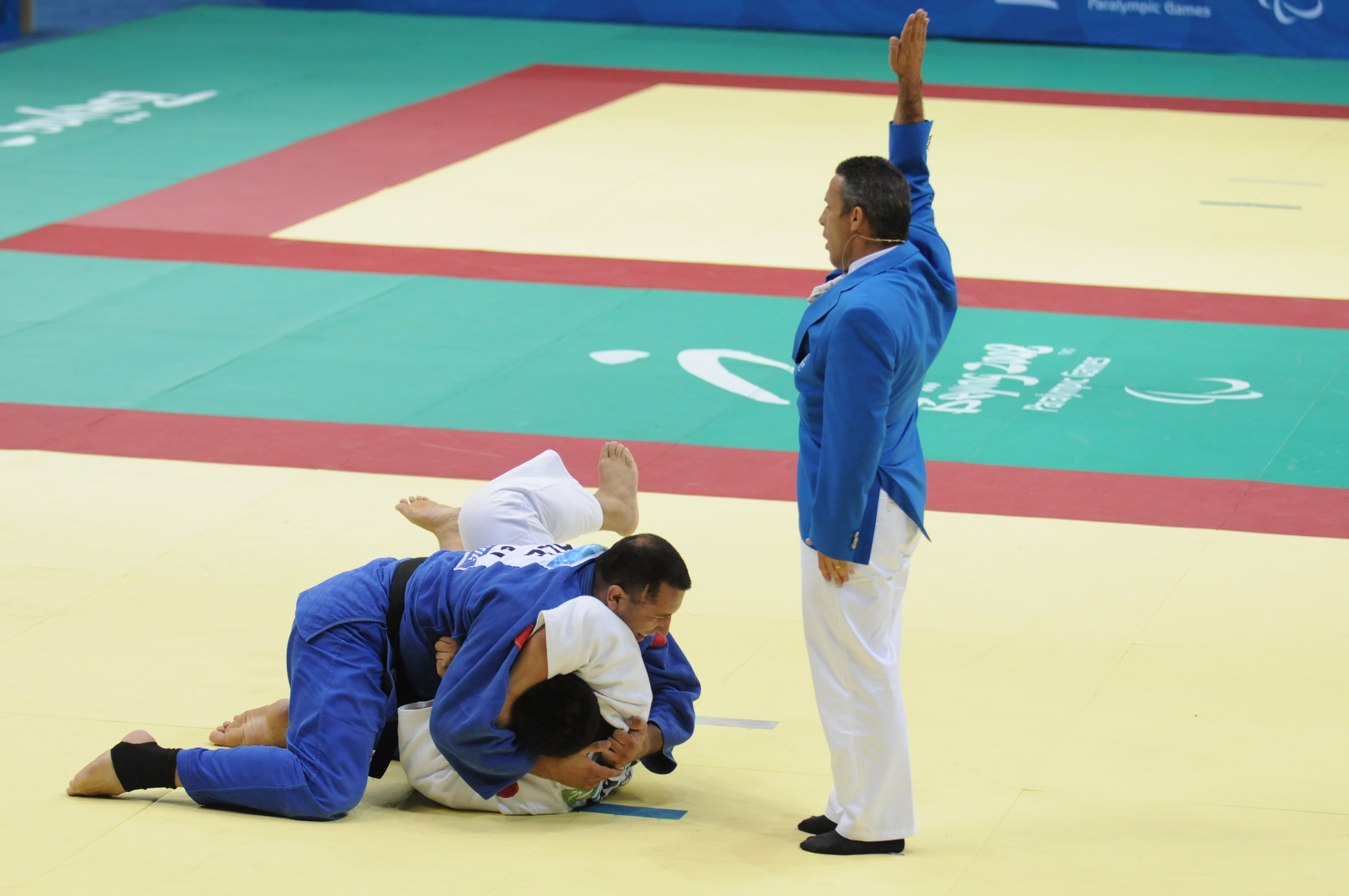 Ilham Zakiyev at 2008 Paralympics